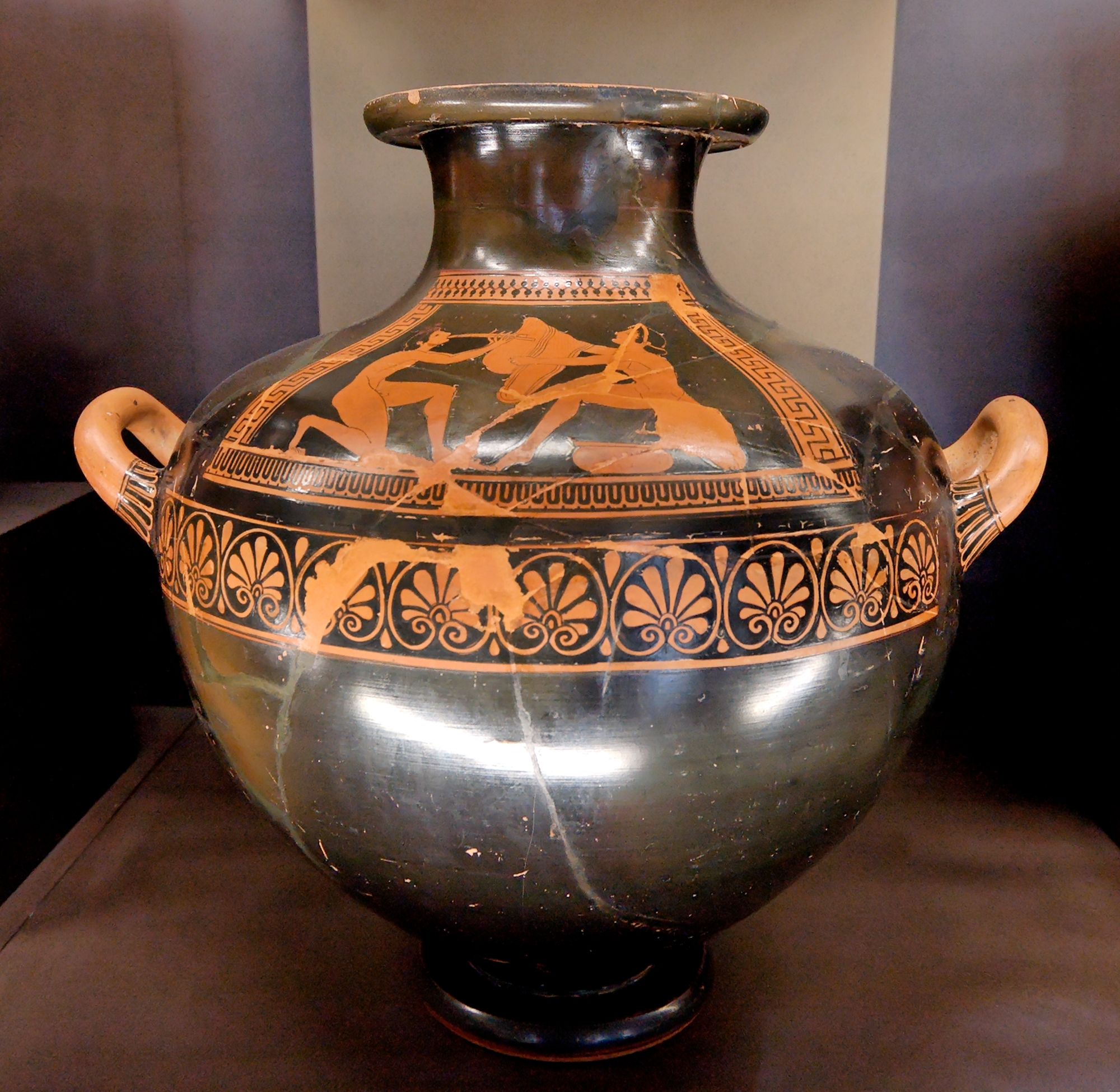 Komastes and urinating woman. Attic red-figure kalpis.